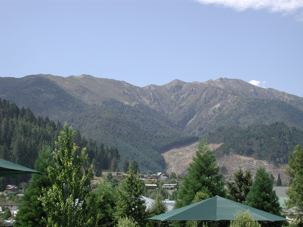 Mount Isobel behind Hanmer Springs; looking north.